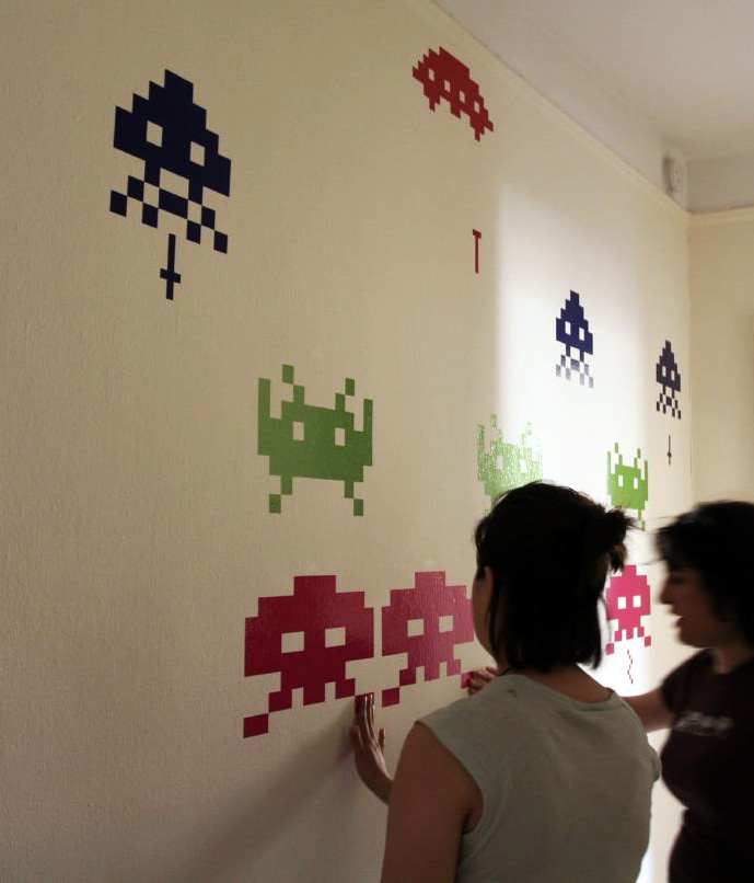 Space Invader wall art